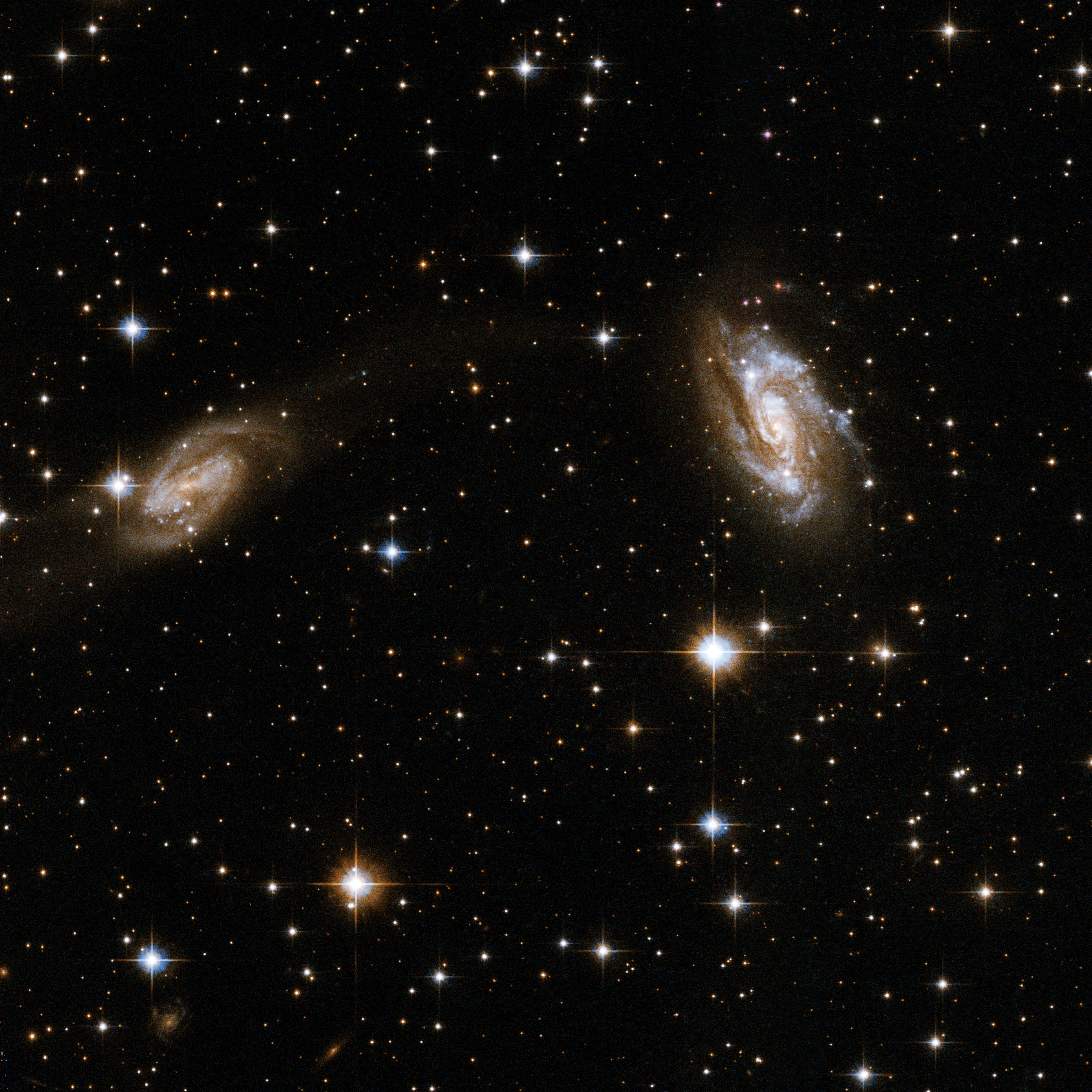 This system consists of two interacting spiral galaxies. The galaxy to the left displays a dim plume of luminosity that extends to the right in the direction of the second spiral. Both galaxies are partly obscured by dust lanes. The galaxy at center is adorned with blue knots of stars. IRAS 18090+0130 is located in the constellation of Ophiuchus, the Serpent Holder, some 400 million light-years away from Earth. This image is part of a large collection of 59 images of merging galaxies taken by the Hubble Space Telescope and released on the occasion of its 18th anniversary on 24th April 2008. About the objectObject nameIRAS 18090+0130, 2MASX J18113342+0131427Object descriptionInteracting GalaxiesPosition (J2000)18 11 37.50 +01 31 40.6ConstellationOphiuchusDistance550 million light-years (200 million parsecs)About the dataData descriptionThe Hubble image was created using HST data from proposal 10592: A. Evans (University of Virginia, Charlottesville/NRAO/Stony Brook University)InstrumentACS/WFCExposure date(s)March 29, 2002Exposure time33 minutesFiltersF435W (B) and F814W (I)